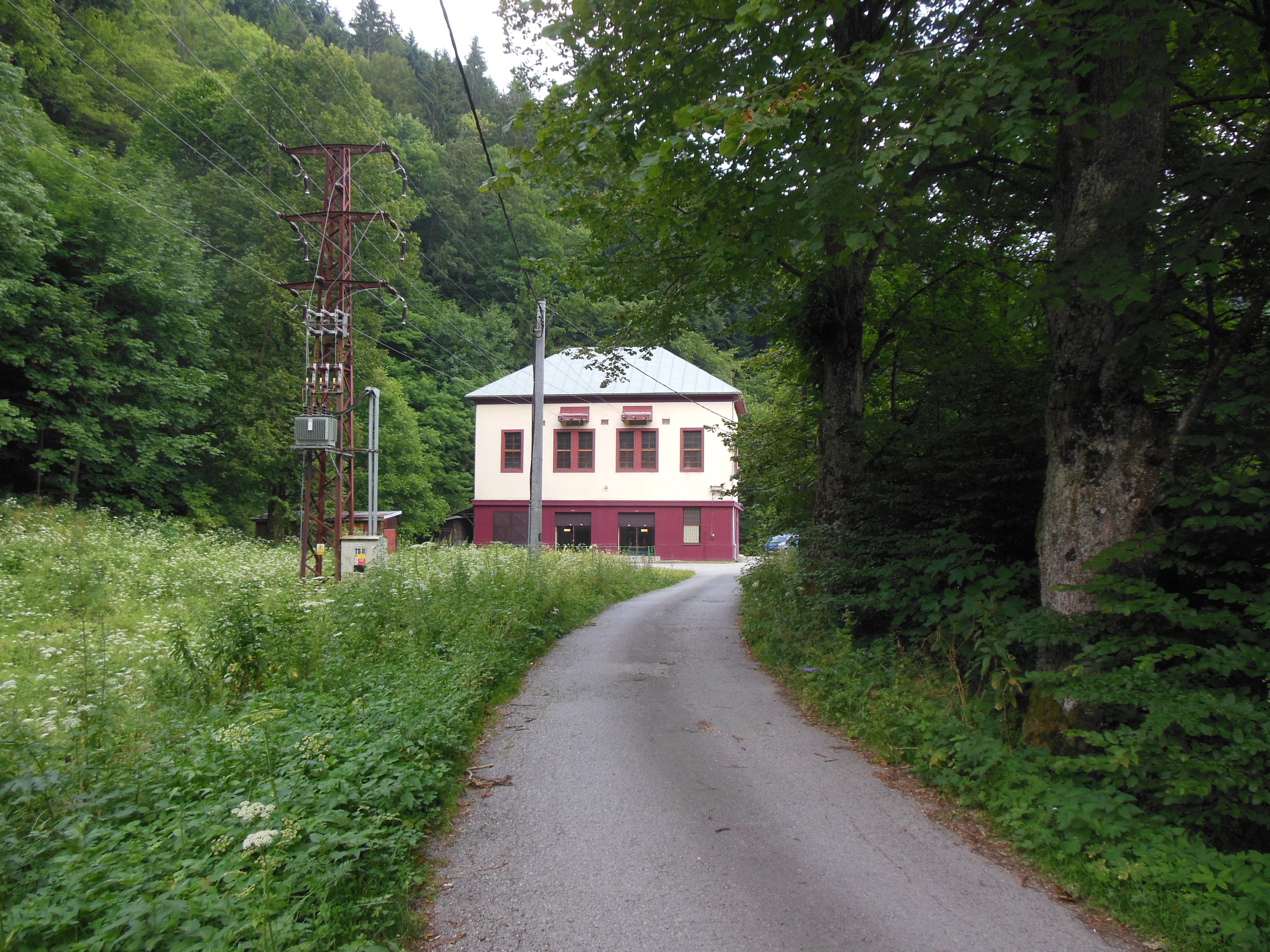 Hydroelectric power plant in Staré Hory, Slovakia